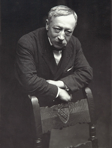 Portrait of French poet Gustave Kahn (1859-1936).